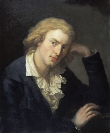 Portrait of Friedrich Schiller